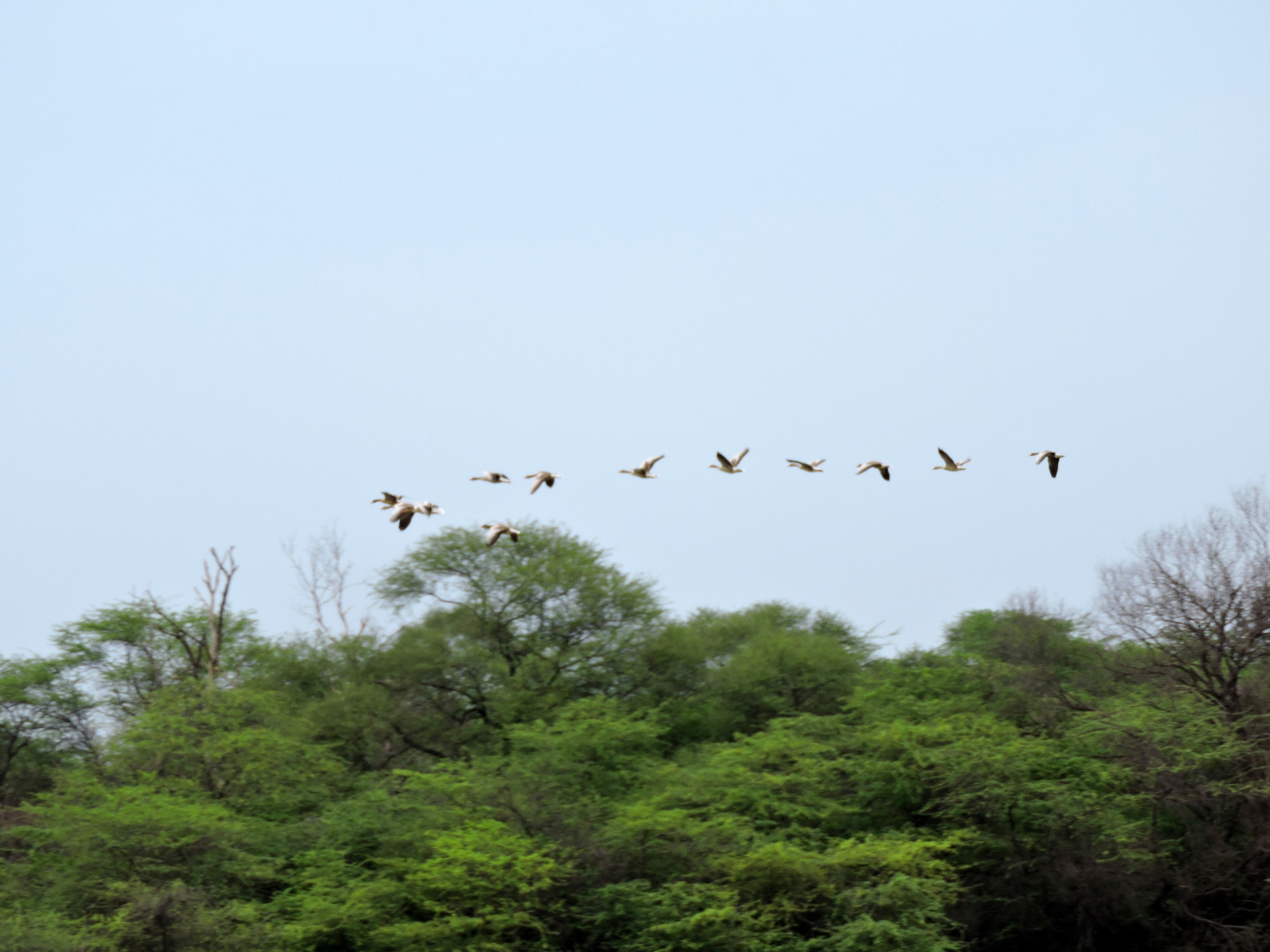 Greylag goose,Sukhna Lake, Chandigarh,India